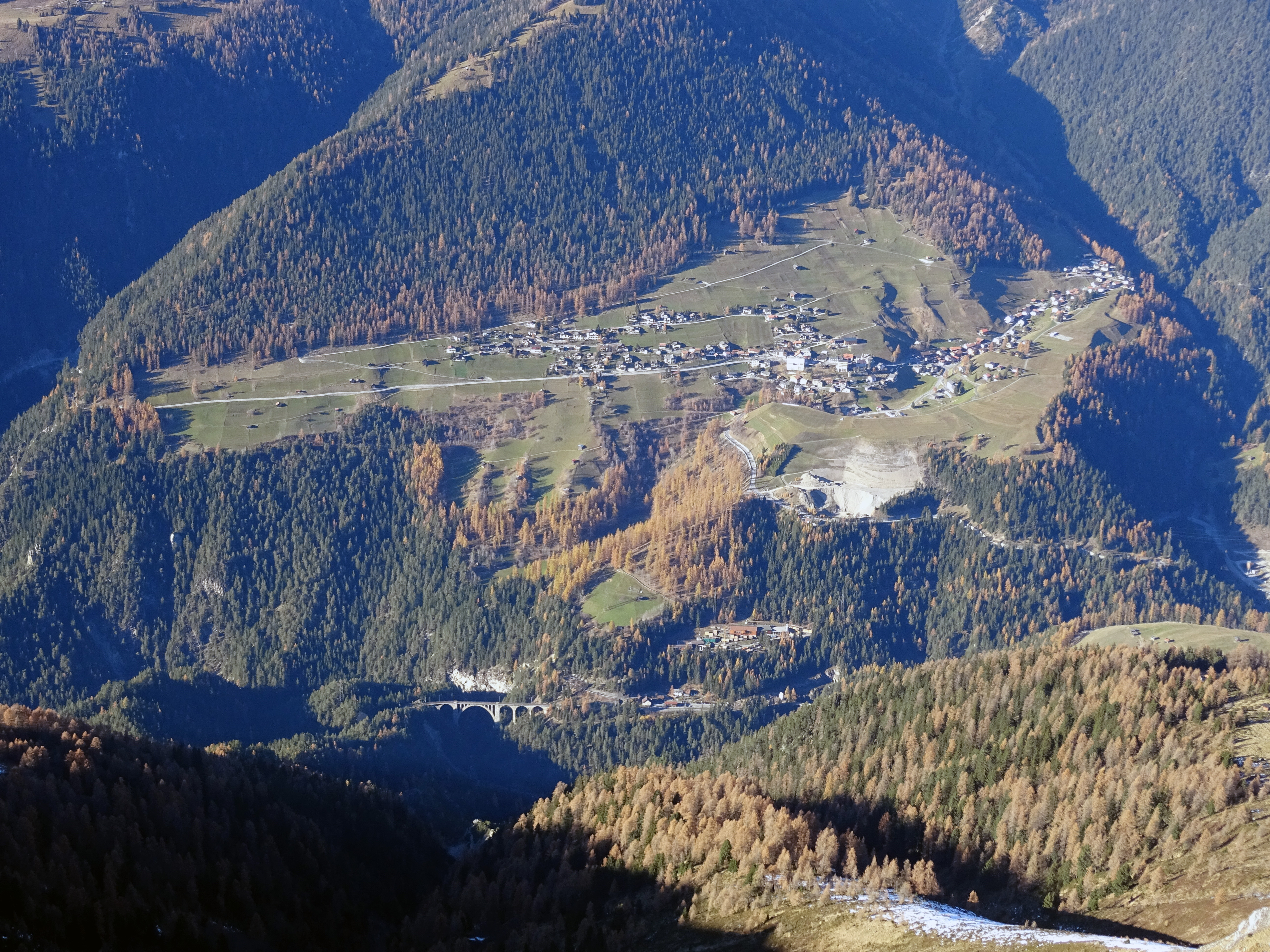 Wiesen, picture taken from Muchetta (Filisur / Bergün/Bravuogn, Grison, Switzerland)